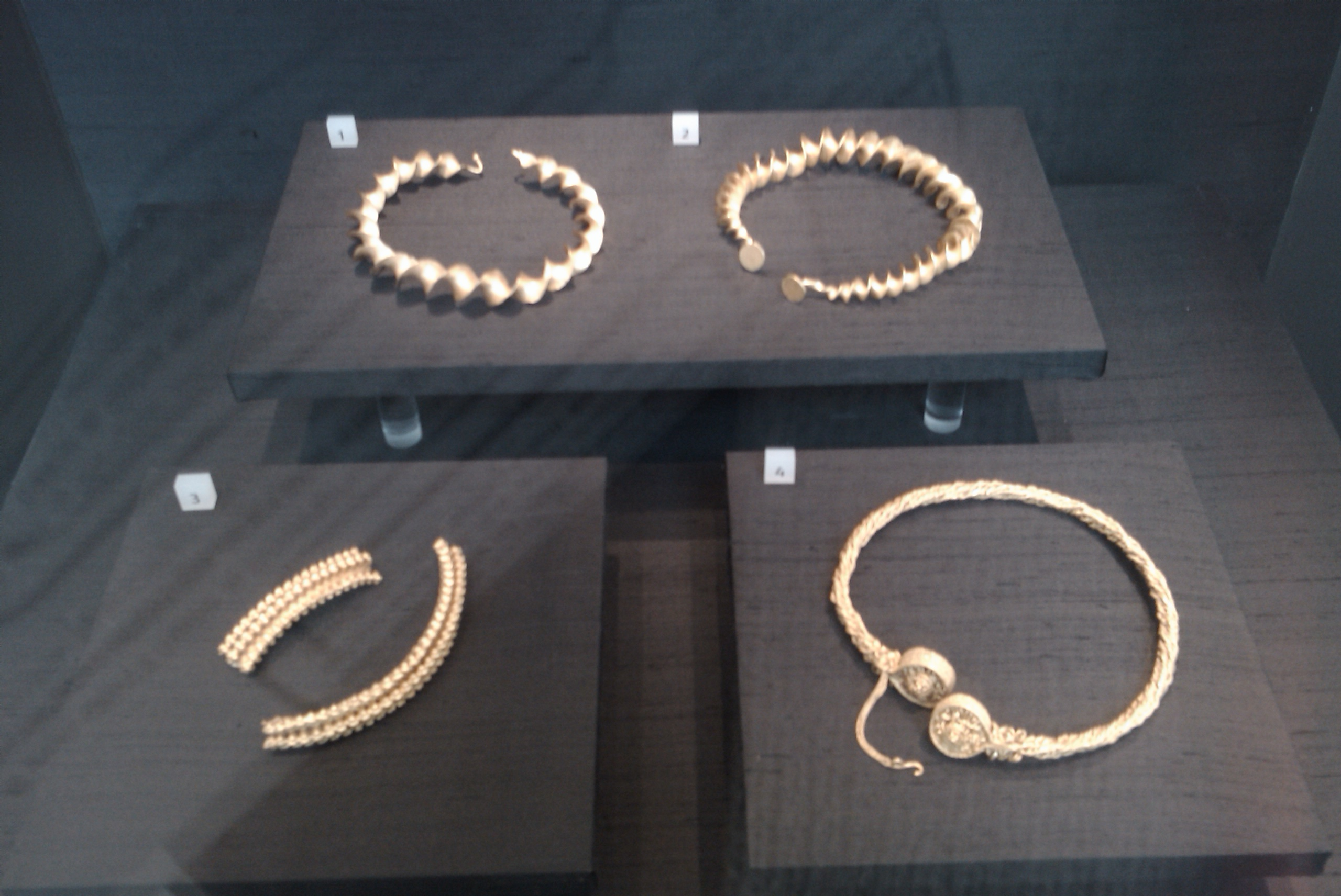 torcs found at Blair Drummond near Sterling by David Booth now on display in Esinburgh at the Museum of Scotland.